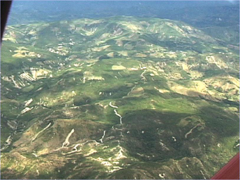 This image shows deforestation across Honduras caused by Hurricane Mitch in October of 1998.